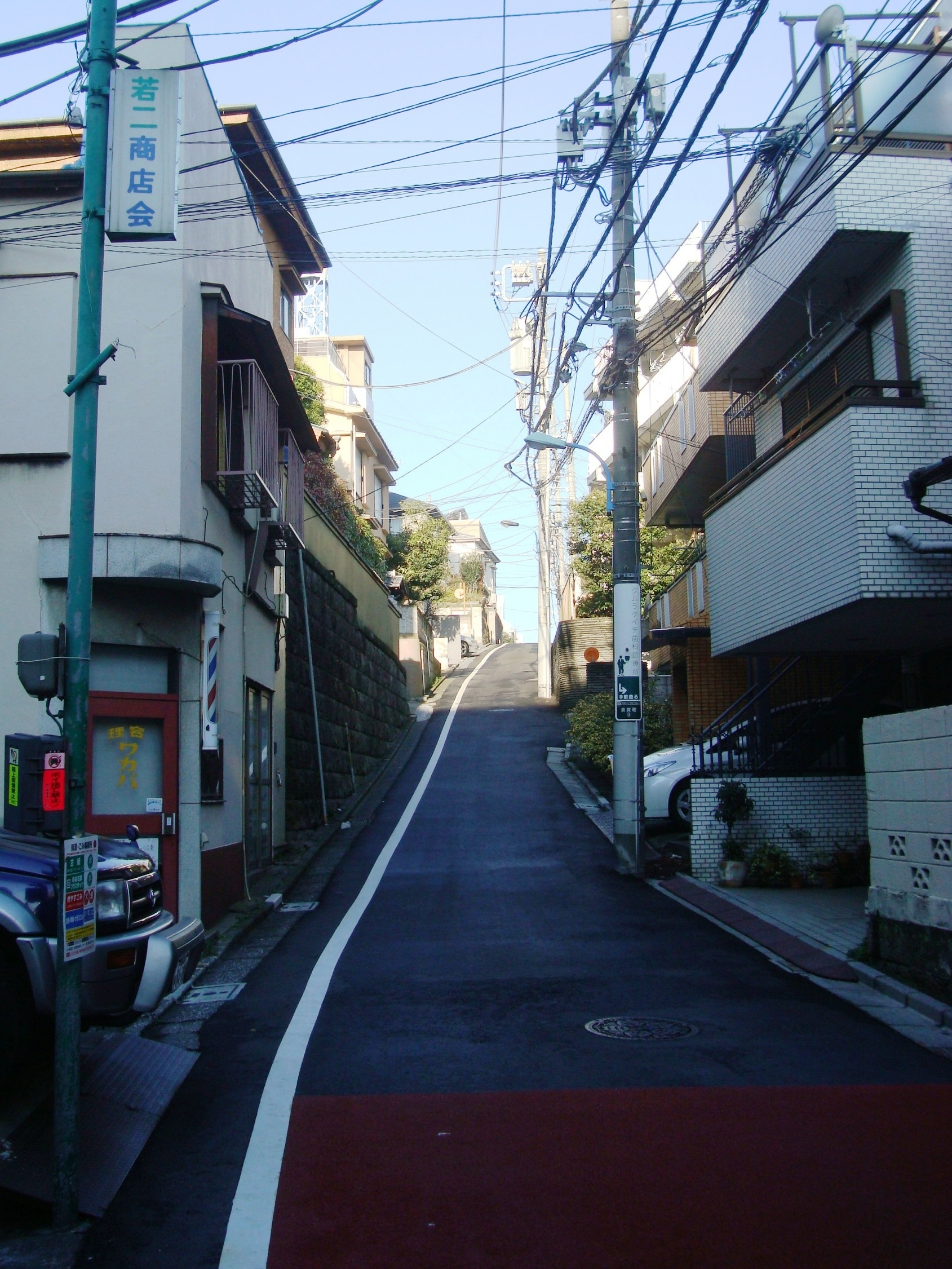 Kaigyoji-zaka street, at Wakaba/Sudacho, Shinjuku city, Tokyo